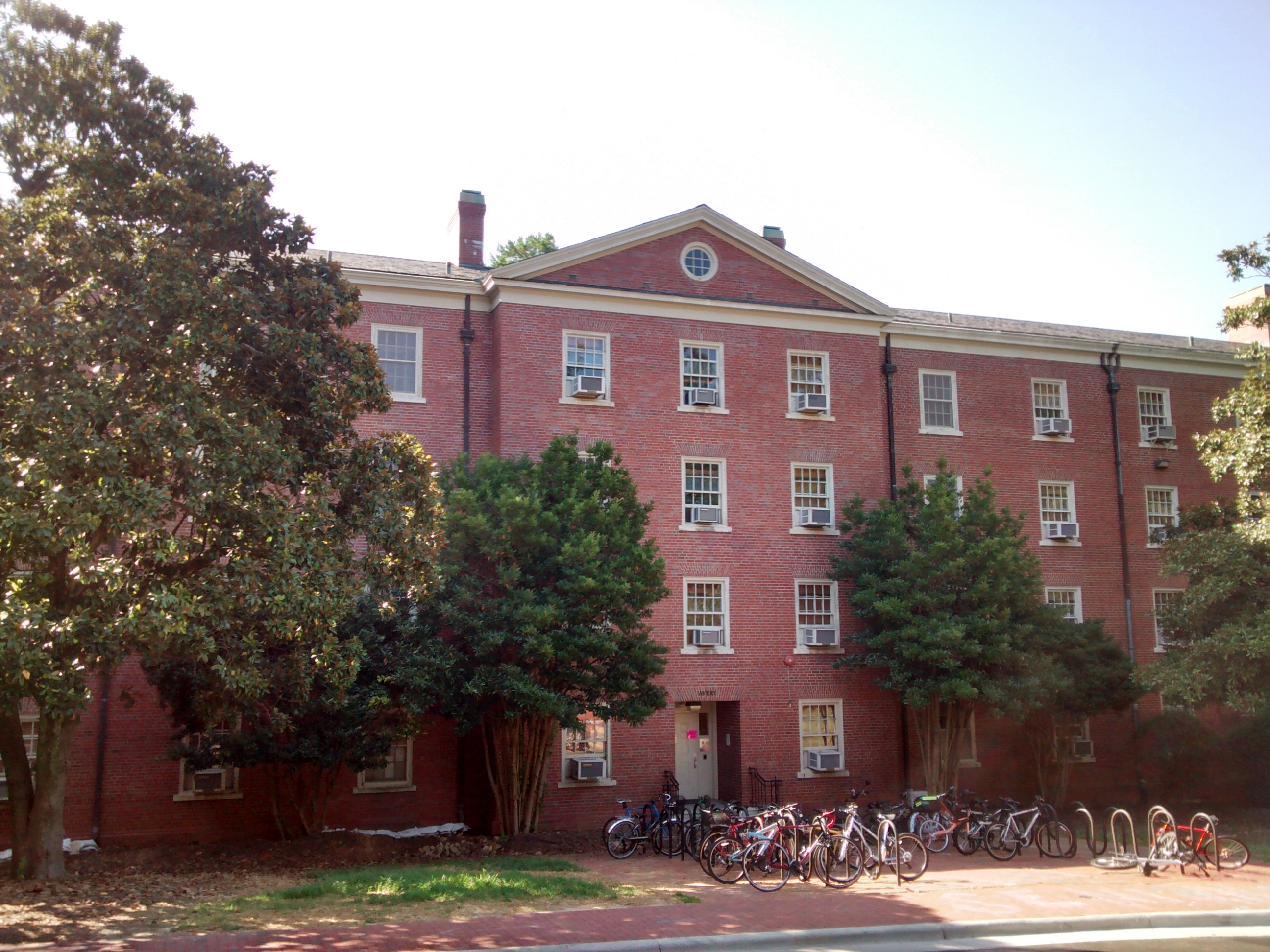 Avery Residence Hall at the University of North Carolina at Chapel Hill.